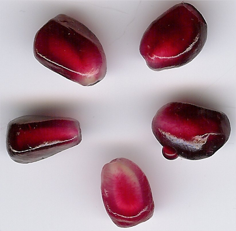 Pomegranate Seeds taken by User:Pschemp. Its the old slap some fruit on your scanner trick :)